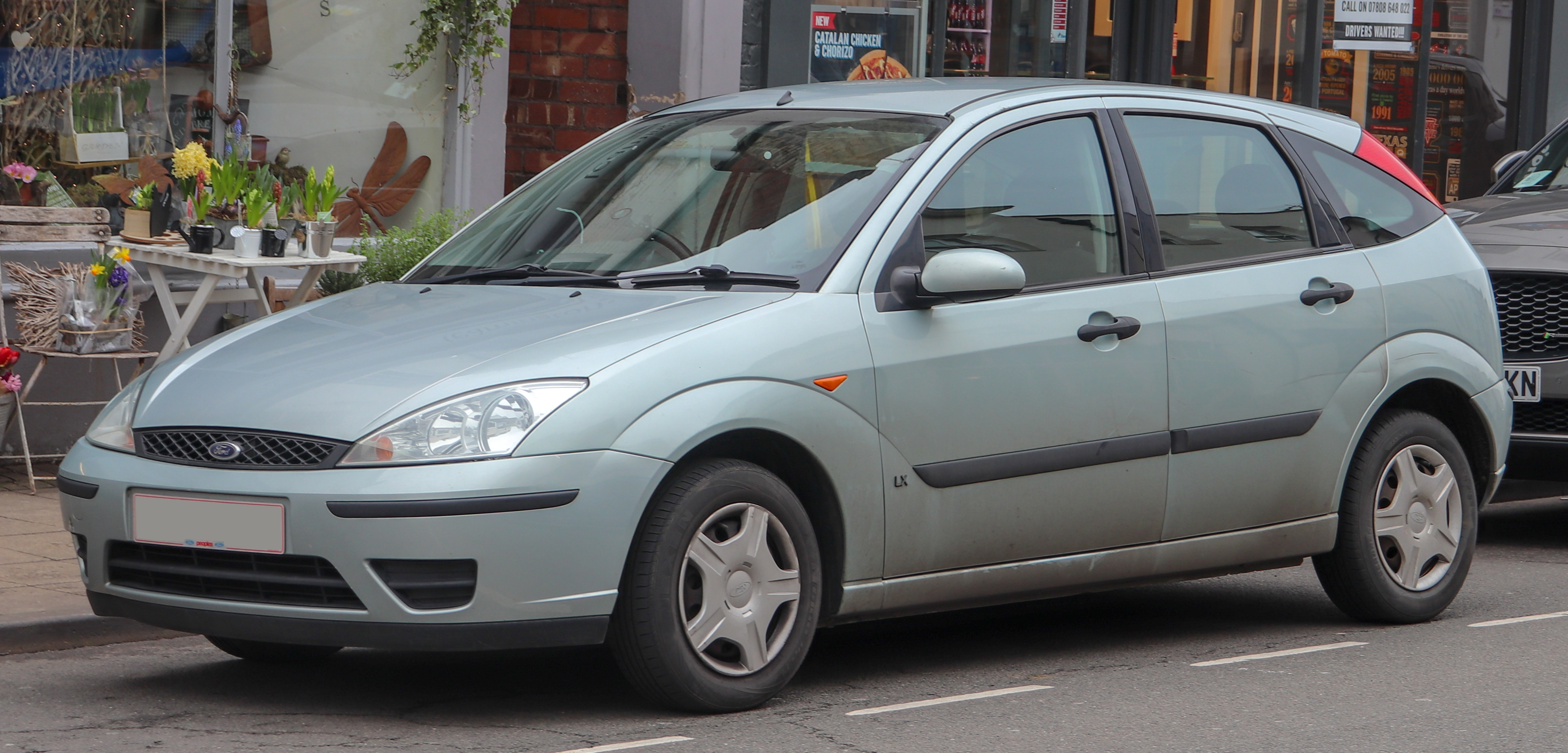 2004 Ford Focus LX 1.4 Front Taken in Leamington Spa